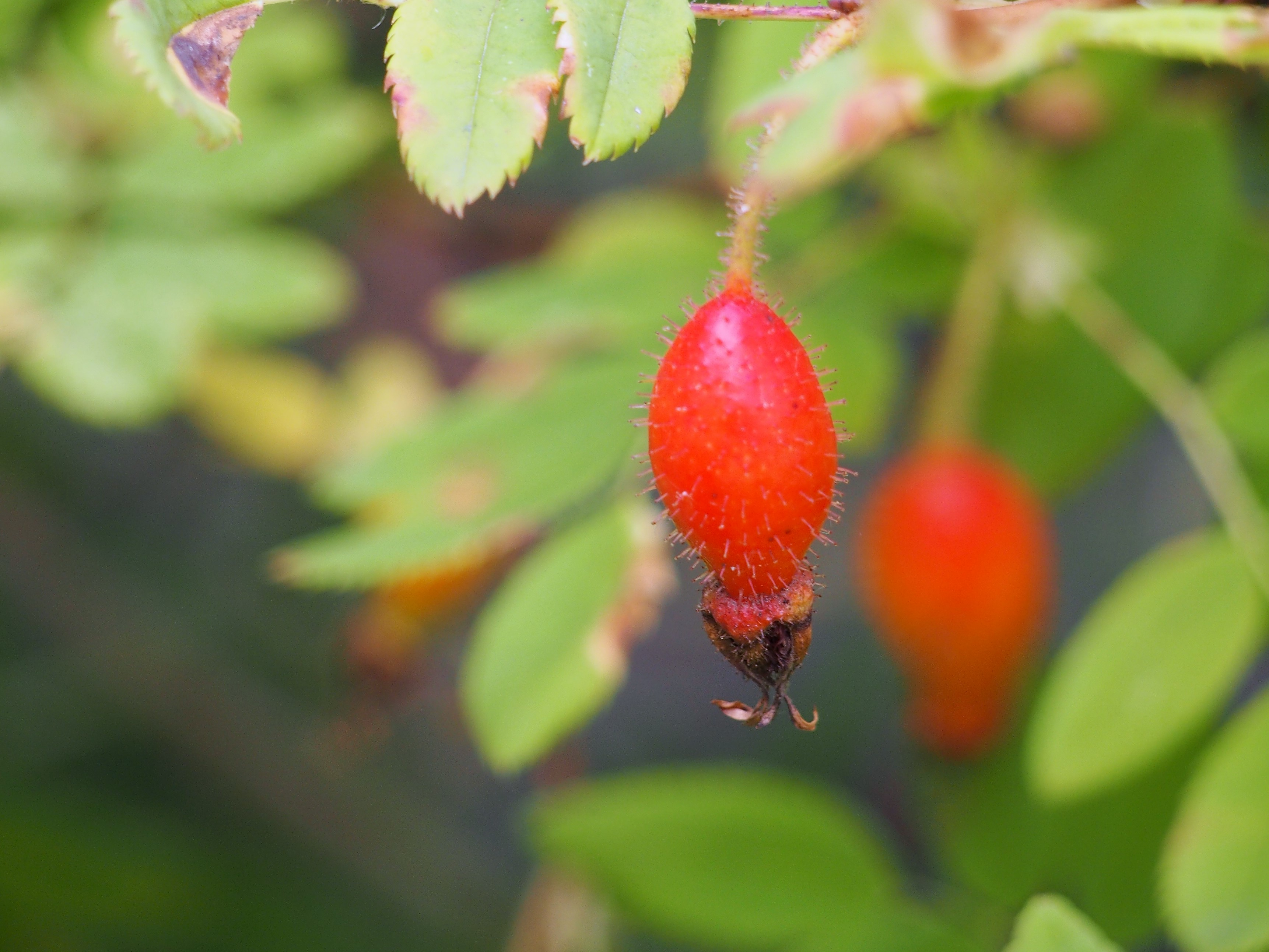 Rosa pendulina, fruits, plant cultivted in Wrocław University Botanical Garden, Wrocław, Poland.